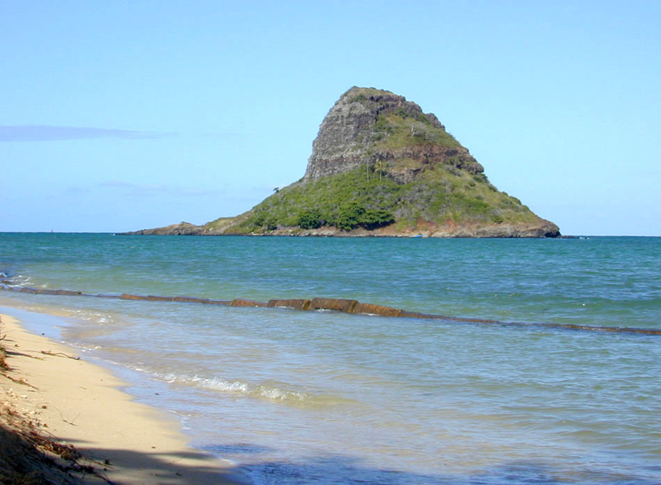 Photograph of Mokoli'i Islet (Chinaman's Hat) from off the south shore of Kualoa Beach Park, Island of O'ahu, Hawai'i